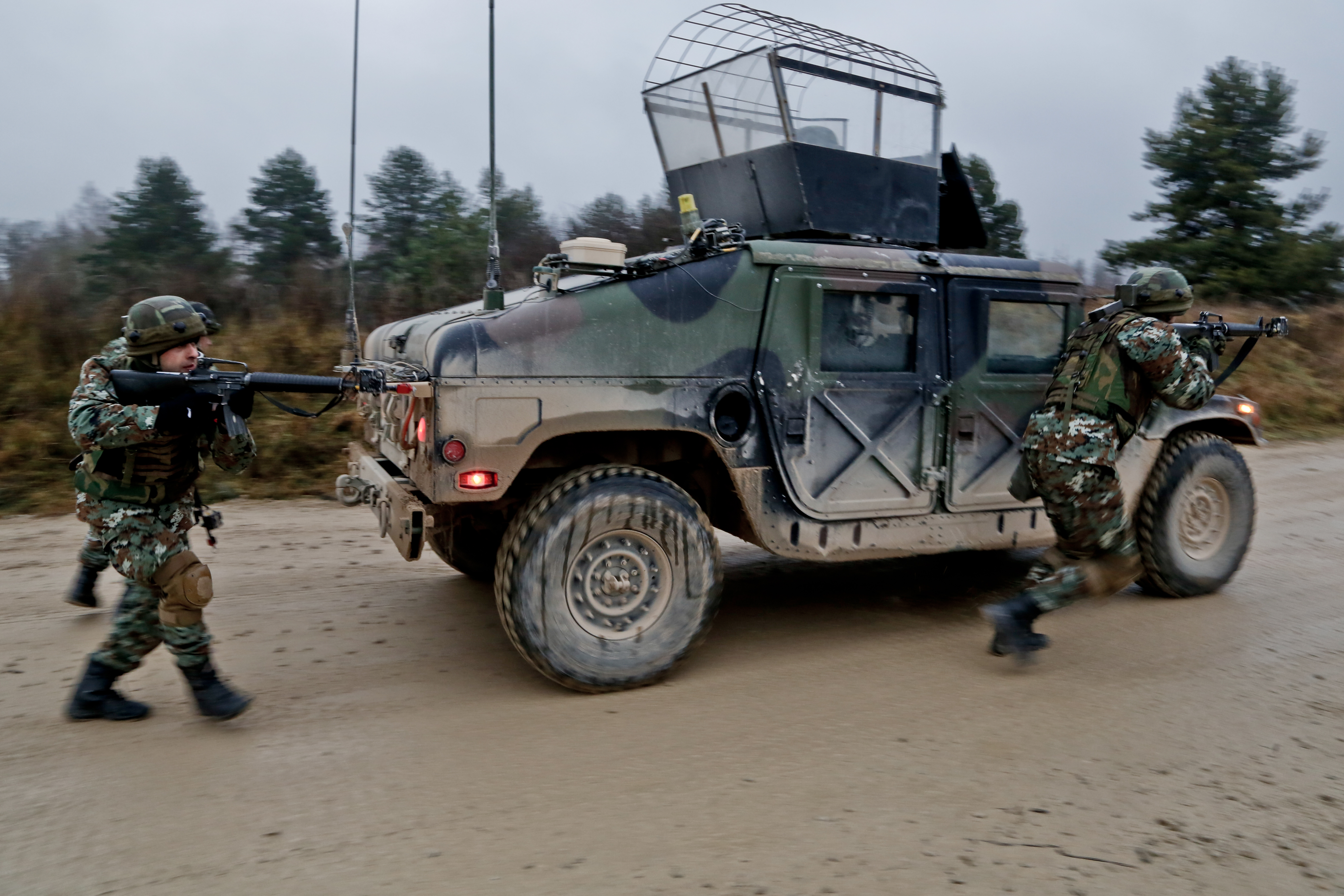 Macedonian soldiers engage simulated opposing forces in a firefight during a military adviser team (MAT) and police adviser team (PAT) training exercise at the Hohenfels Training Area, a part of the Joint Multinational Readiness Center, in Hohenfels, Germany, Dec. 14, 2013. MAT/PAT training at Hohenfels Training Area, Germany, prepares U.S. and multinational partners for counterinsurgency operations and mentoring allied forces in Afghanistan.